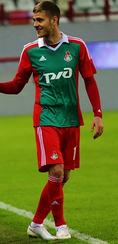 Arseniy Logashov